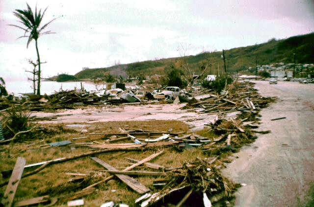 Damage from Typhoon Karen's storm surge in Asan, Guam taken roughly a week after the storm.